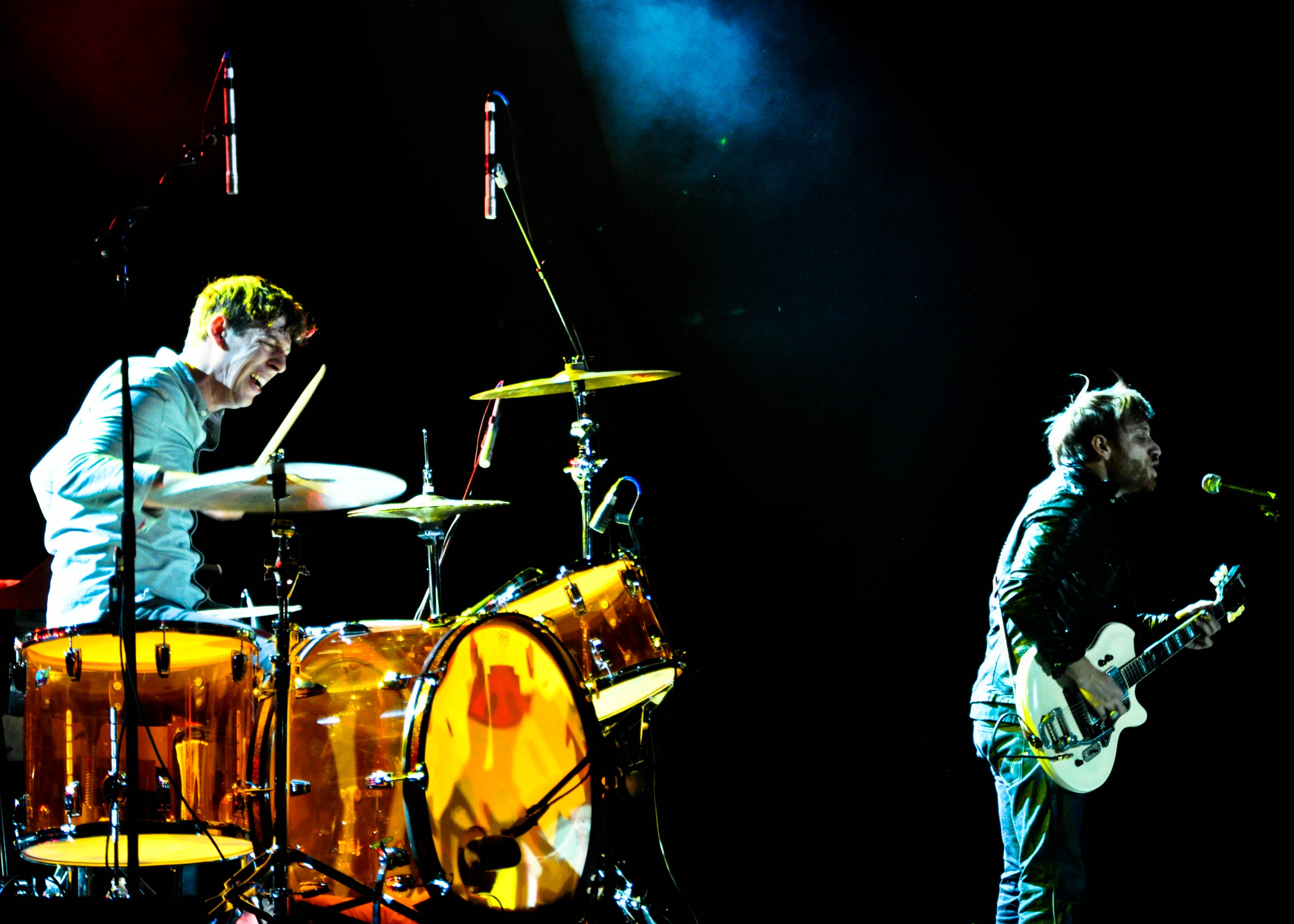 The Black Keys performing on February 5, 2010 in Jacksonville, Florida